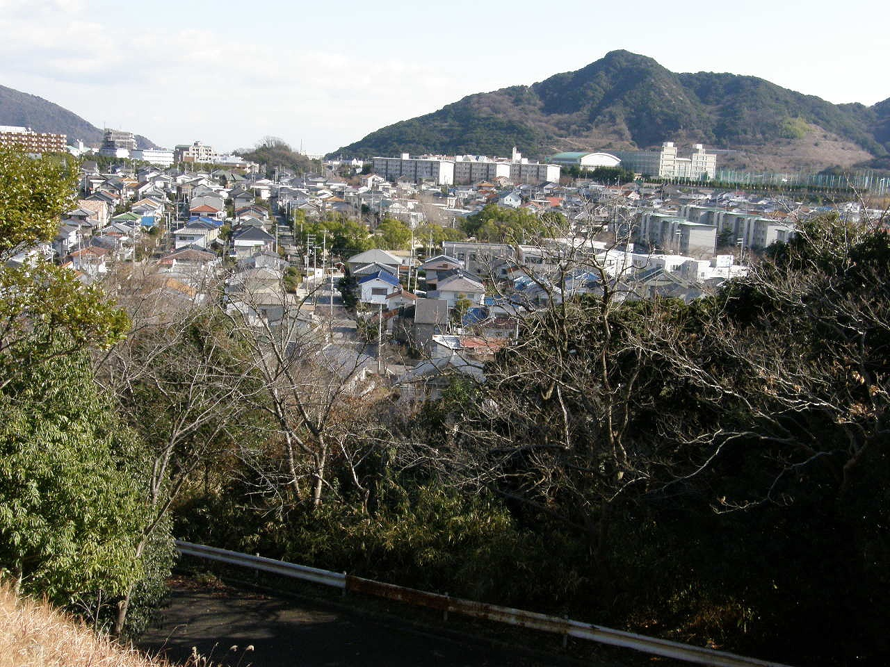 KOBE,SUMA,TOMOGAOKA